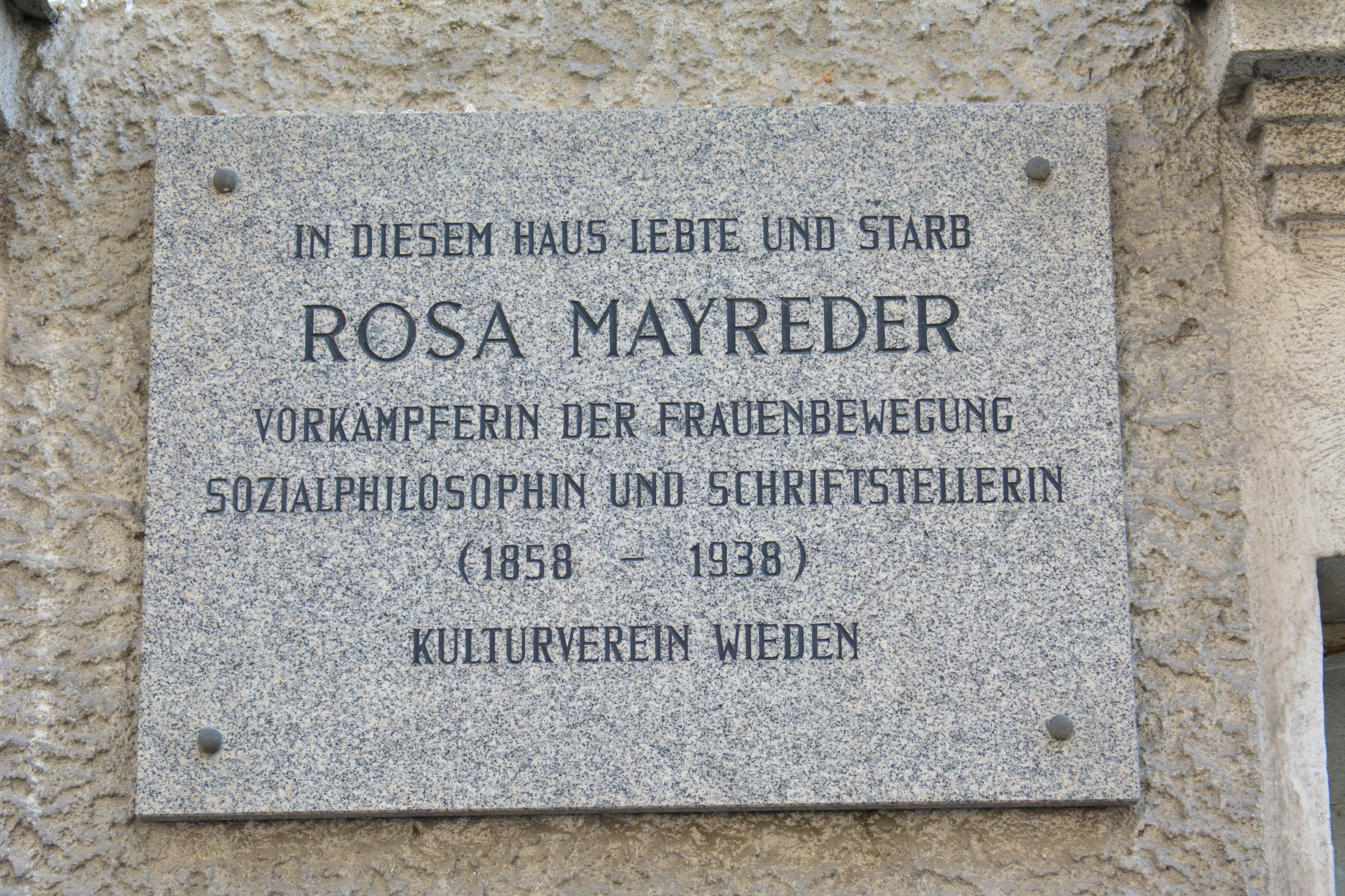 Plaque to Rosa Mayreder